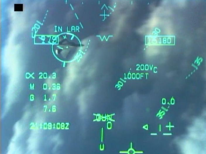 F-18 Heads Up Display (HUD) with gun symbology. "Pipper" is on target (in this case an F-22 Raptor).